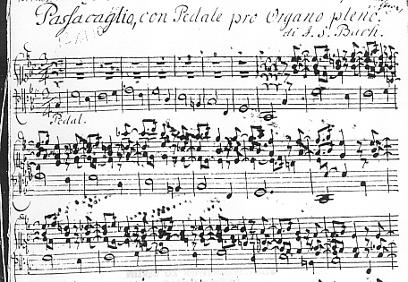 First page of BWV 582 (not Bach's autograph, which is lost, but a later copy)